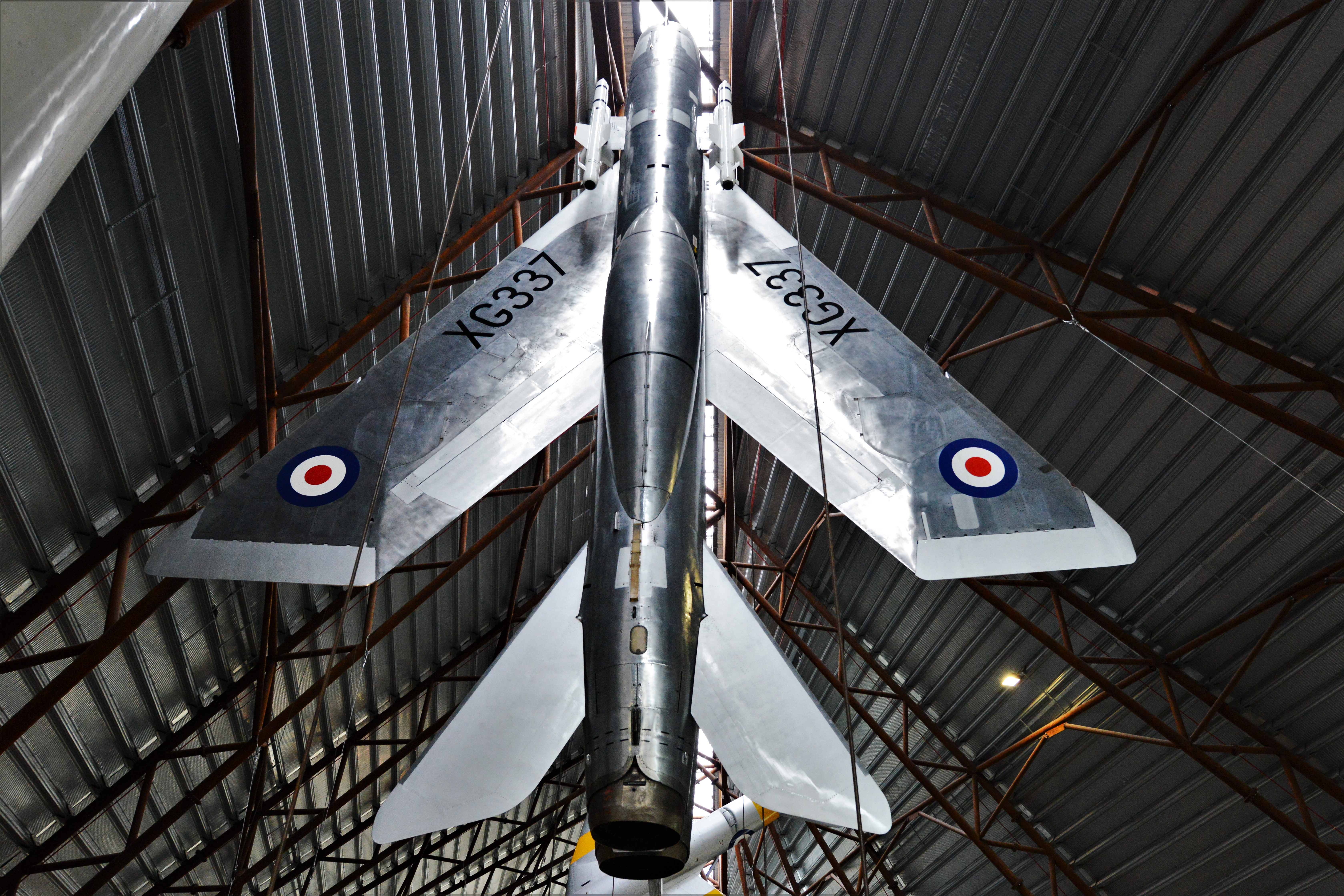 Cosford: Royal Air Force Museum: English Electric Lightning suspended from the ceiling